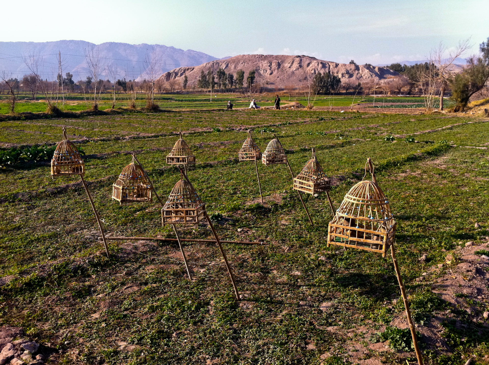 in the fields